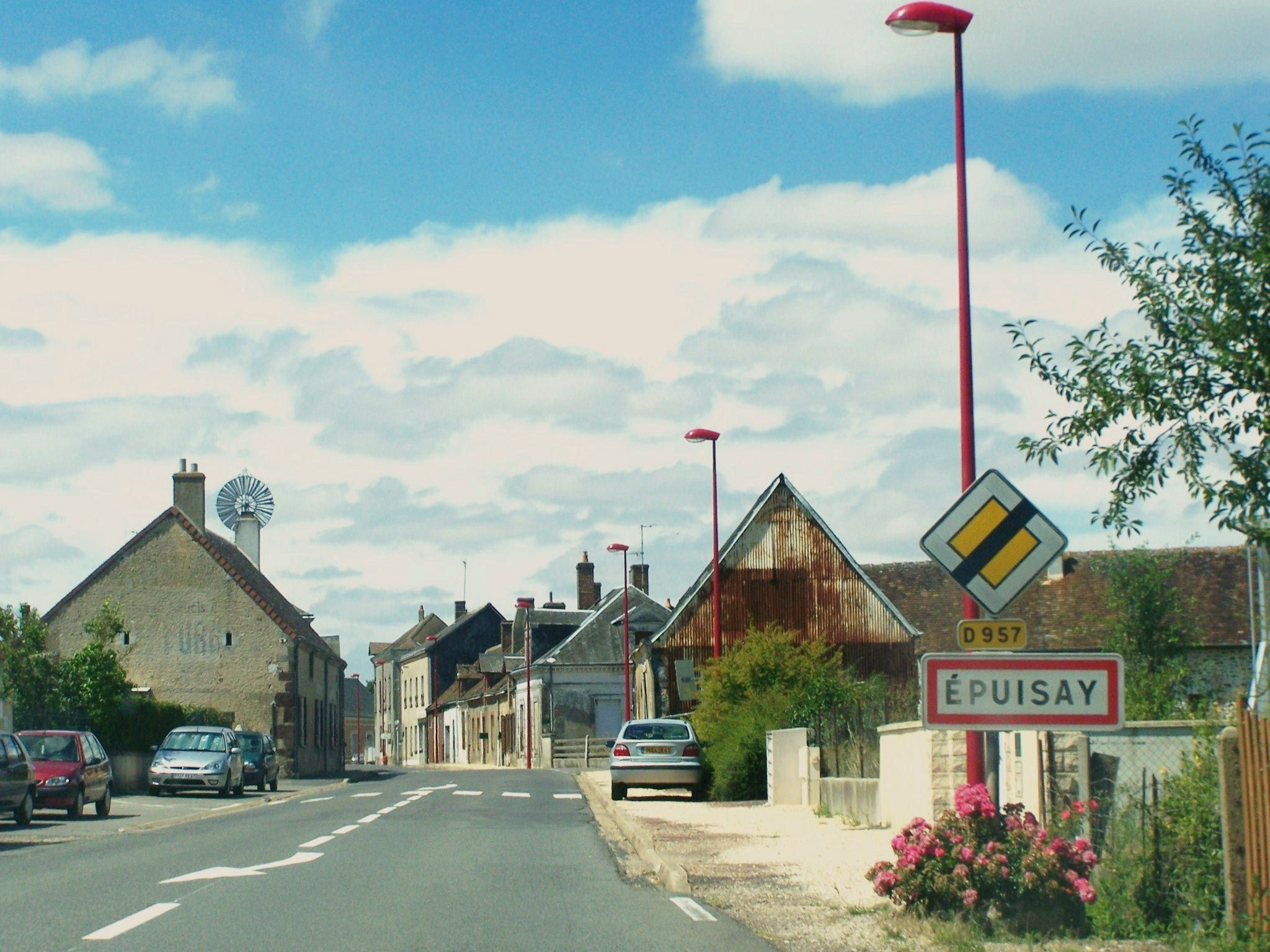 Entrance in the little commune of Épuisay in Loir-et-Cher, France.